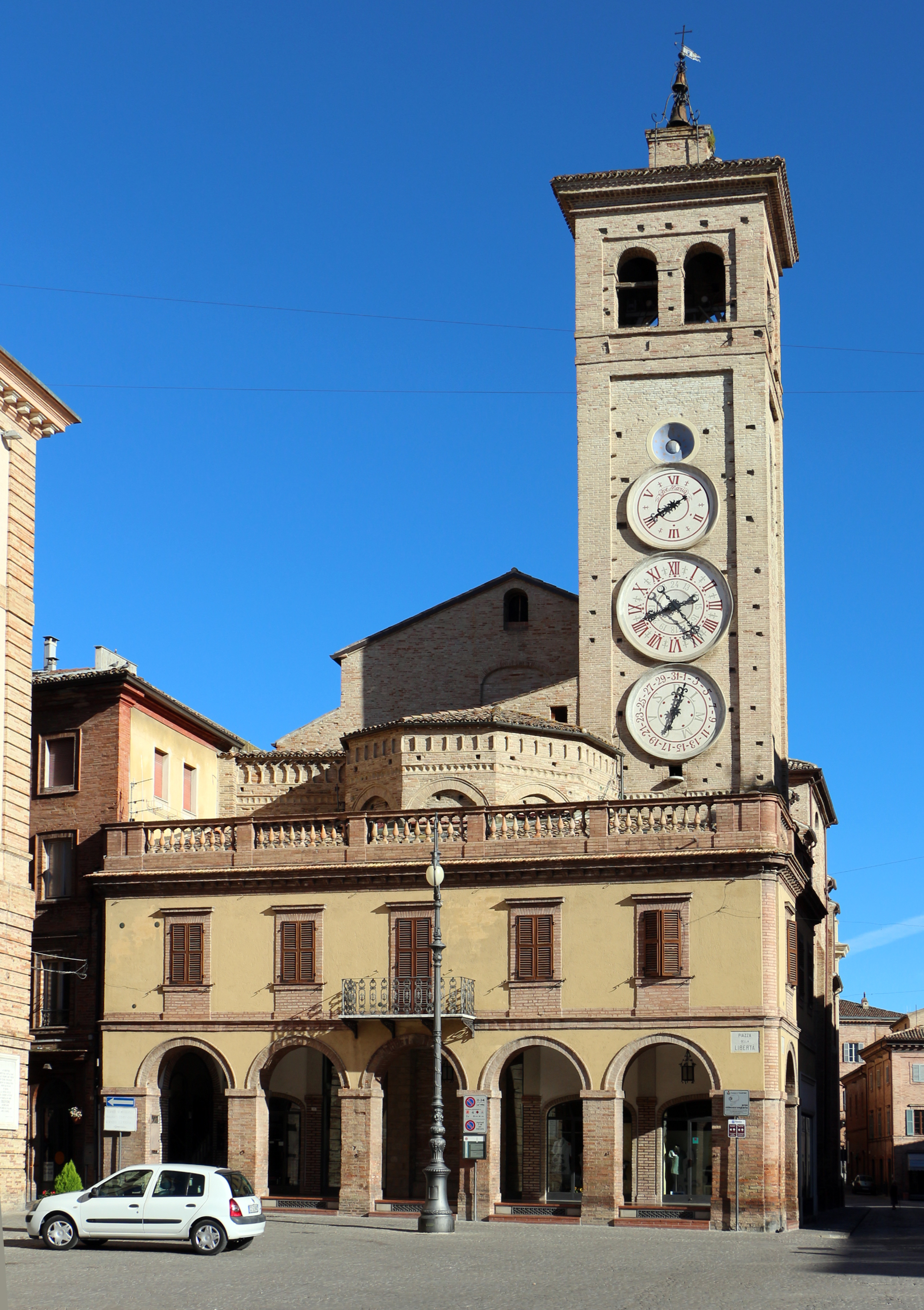 Buildings in Tolentino